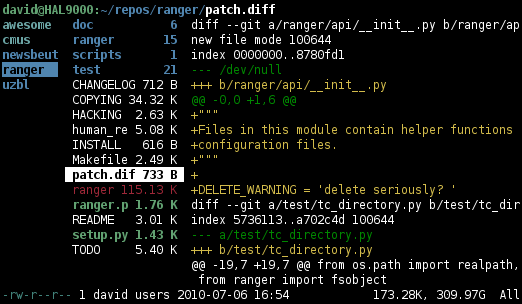 A screenshot of the filemanager Ranger